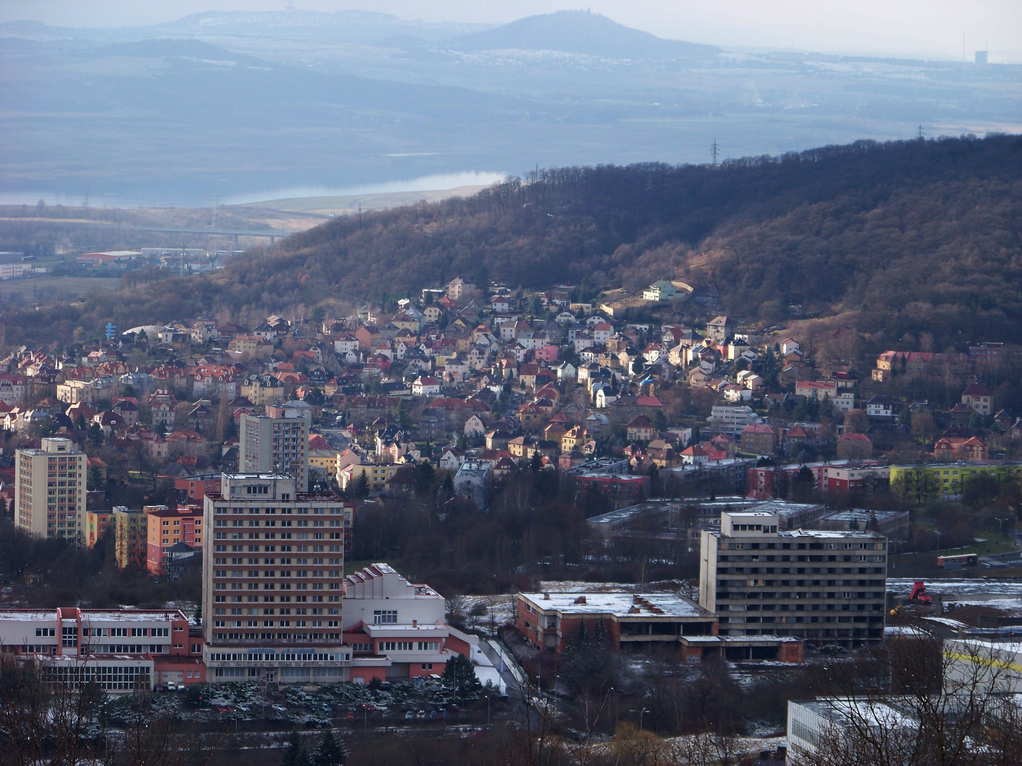 Ústí nad Labem, the Czech Republic. A view from the observation tower Erbenova vyhlídka.